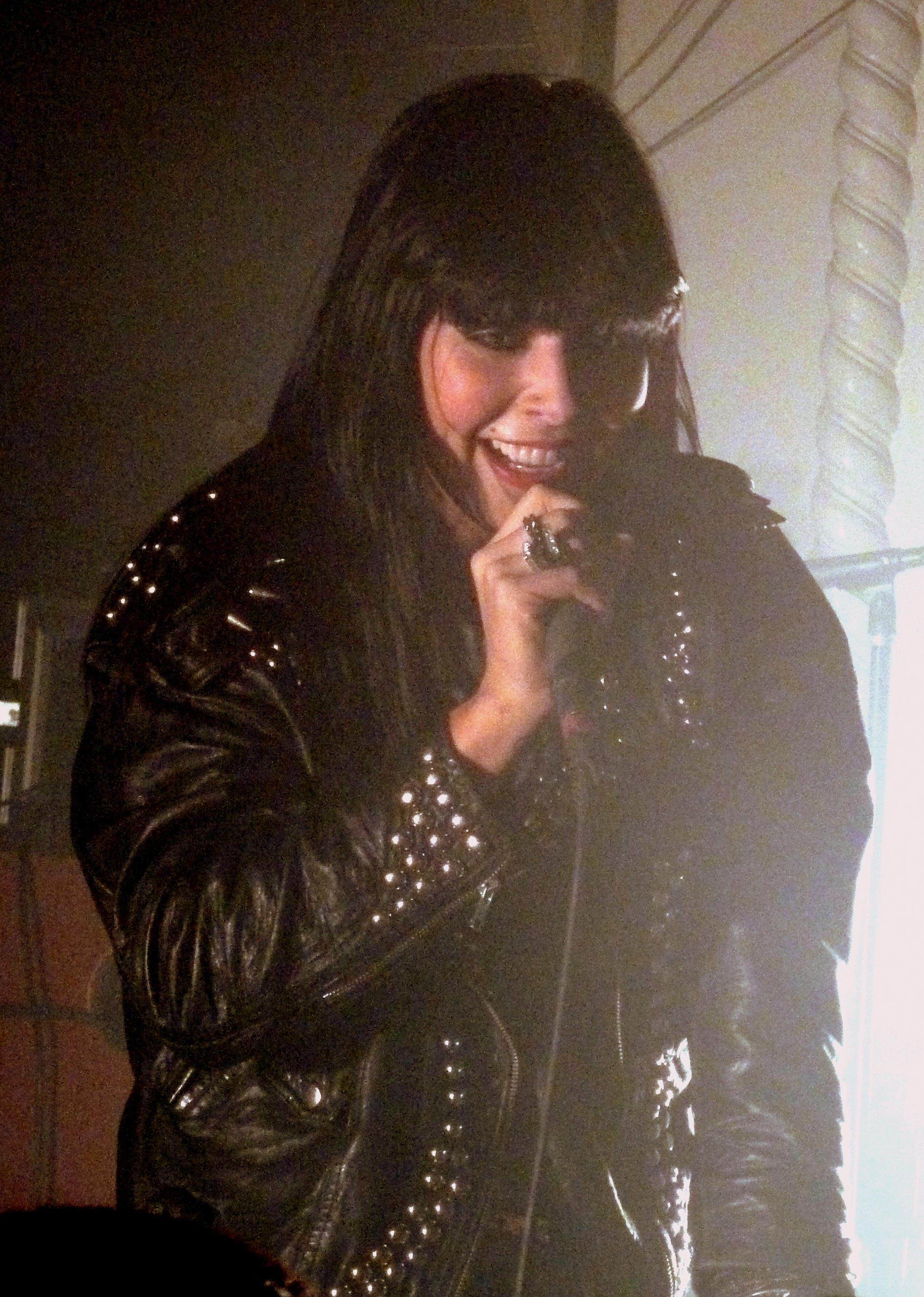 Alexis Krauss of Sleigh Bells at the Clazel Theater, Bowling Green Ohio, 11/7/12